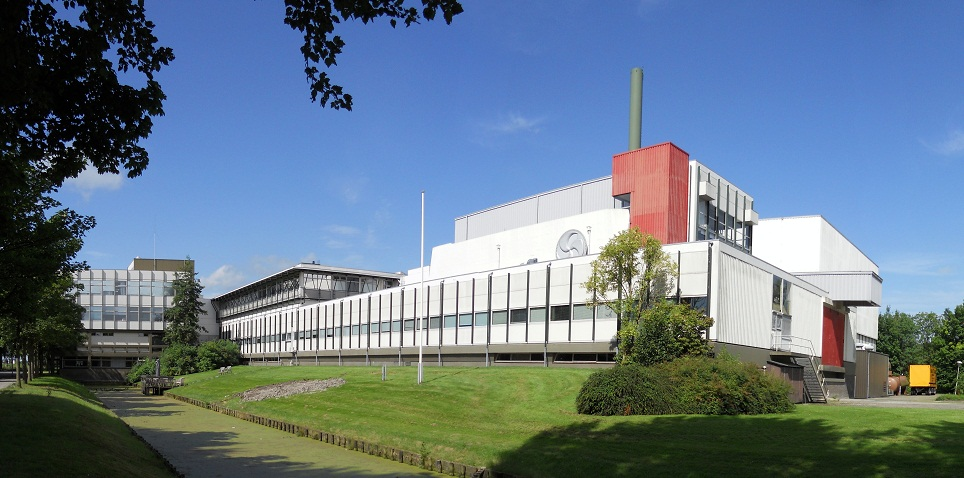 Nuclear Physics Institute, University of Groningen